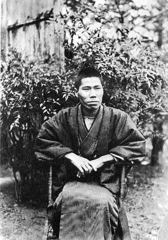 Japanese short-story writer Kajii Motojirō, sometimes written Motojirou Kajii or Kajii Motojirou, 1901-1932), author of Lemon (檸檬 Remon)